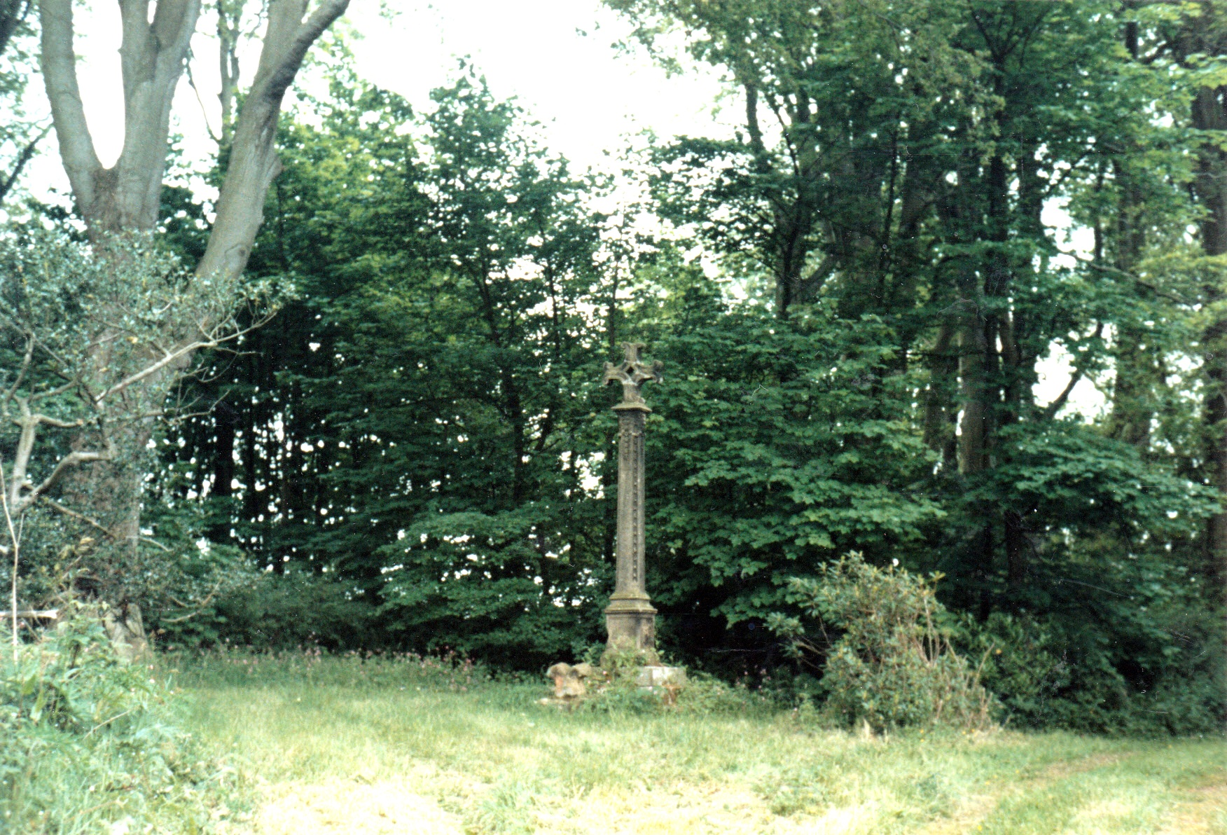 Stone memorial cross erected by the Duchess of Northumberland in 1774 in memory of King Malcolm III (Canmore) of Scotland who was killed on or near this spot while besieging Alnwick Castle in 1093. Legend has it that the castle's Steward rode up to the Scottish king to surrender the keys of the castle in the time-honoured tradition of passing them over on the end of his lance. However, once within arm's range of the king, he decided to use his lance to greater effect by treacherously slaying him on the spot.